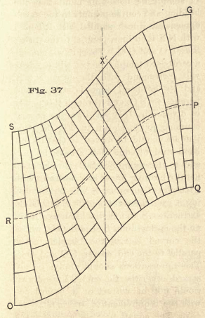 A plate showing the development of the intrados of a skew arch built to the logarithmic pattern